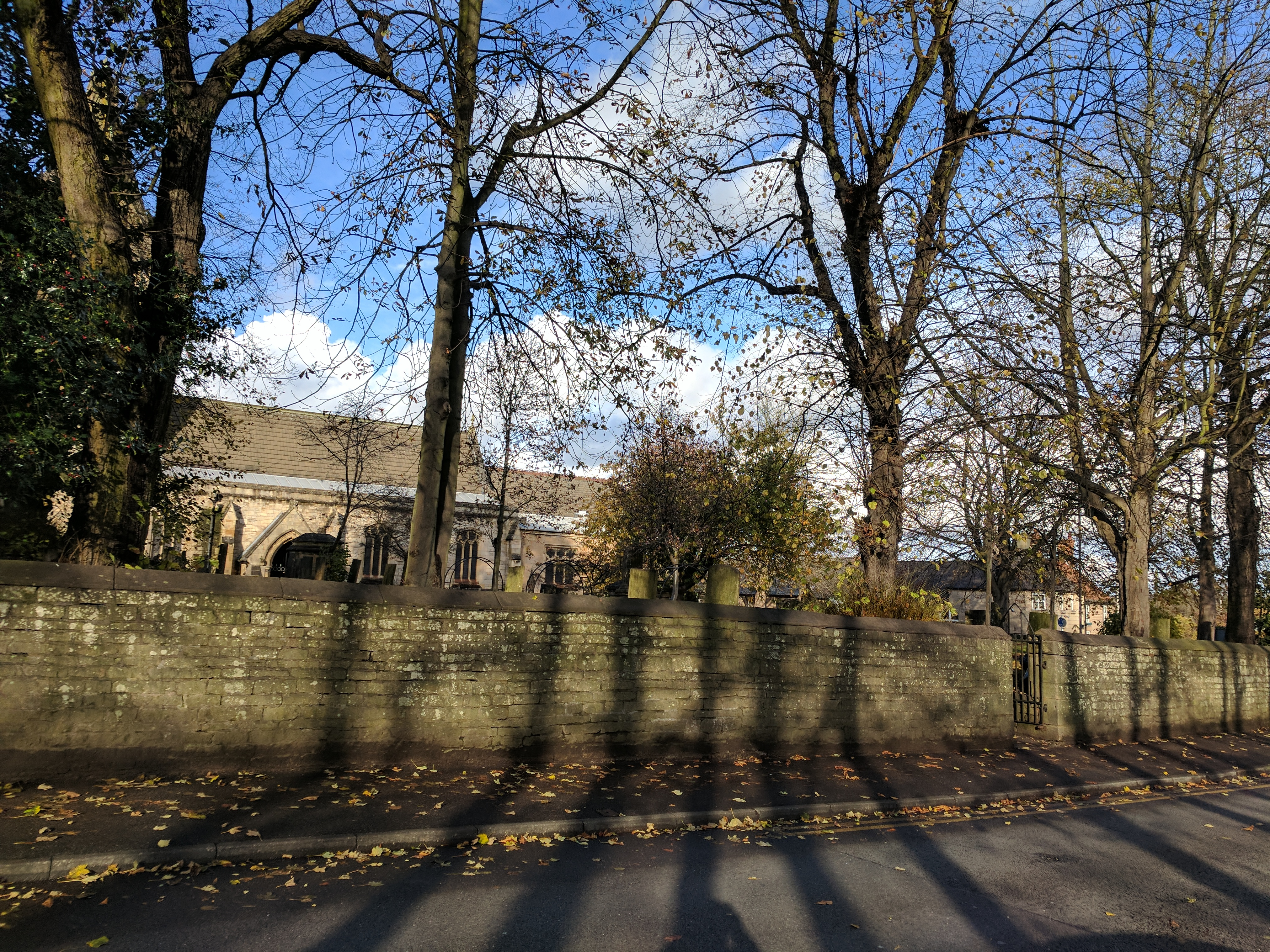 Boundary Wall At Church Of St Edmund Wikidata has entry Q26553436 with data related to this item.